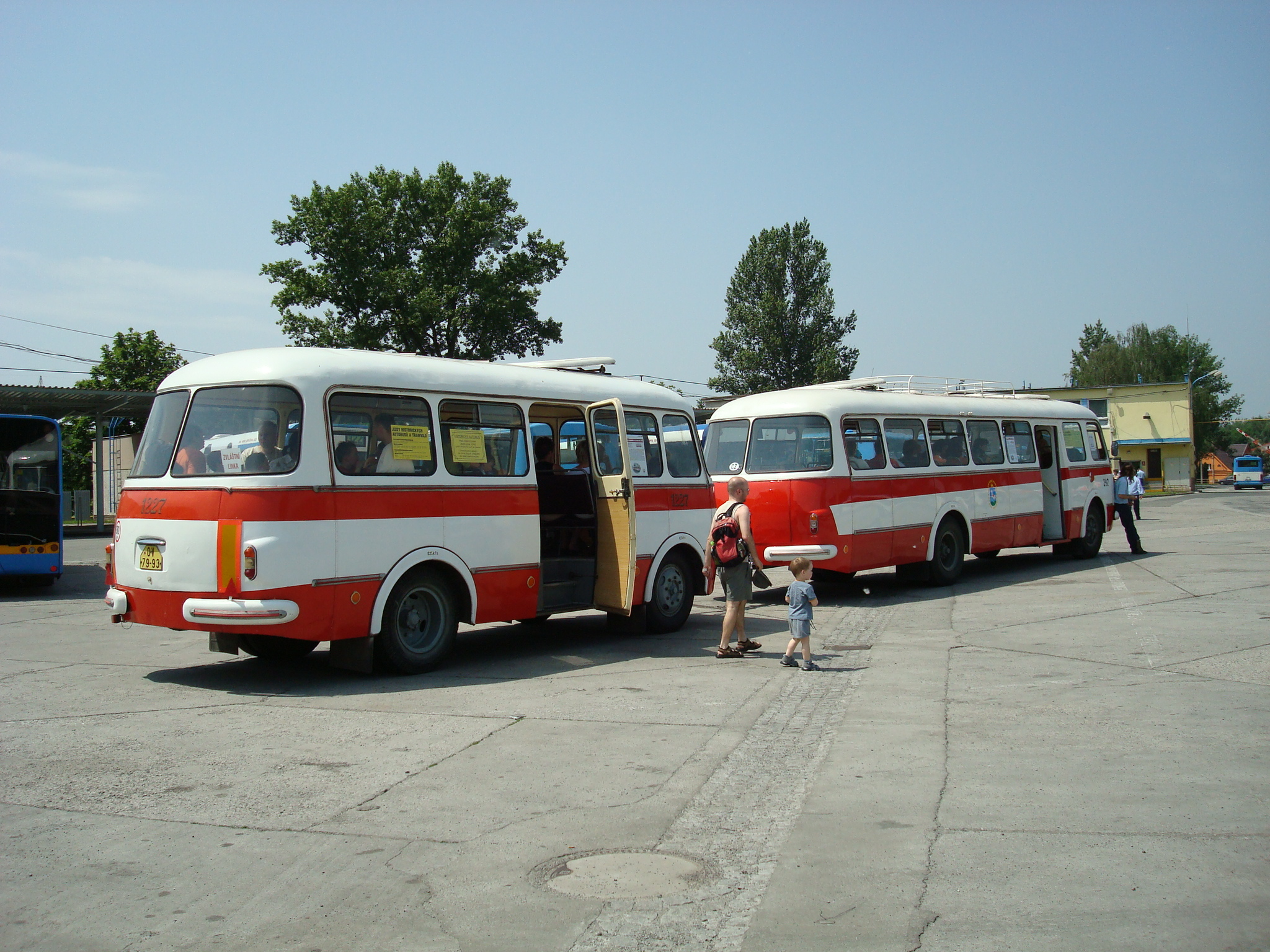 Škoda 706 RTO CAR bus (#247, built 1966) and Jelcz P-01E bus trailer (#1227, built 1974) in Ostrava, Czech Republic. DP Ostrava operator.